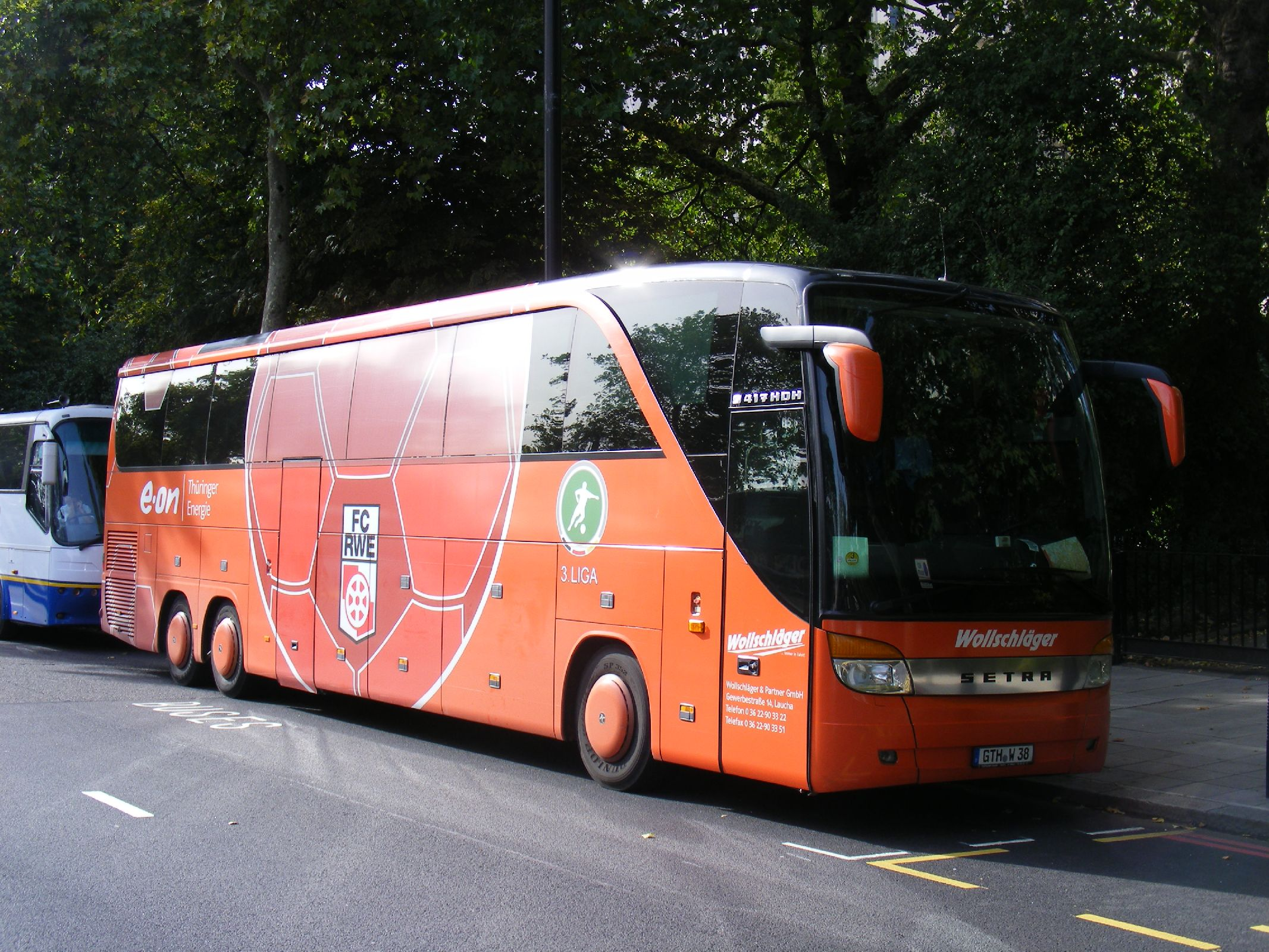 Not sure why the apparent FC Rot-Weiss Erfurt team bus was in London . Certainly Wollschläger ,which has a travel agency in Gotha, tour vehicles are occasionally seen in Britain. FC RWE play in the Steigerwaldstadion, known in DDR times as the Georgij Dimitroff Stadion, built in 1931, holding nearly 20,000 spectator, designed by Boegel & Kloss. See here for a directory of Liga 3 stadia Fleet details of the coach operator , which has 14 service buses and 7 touring coaches here